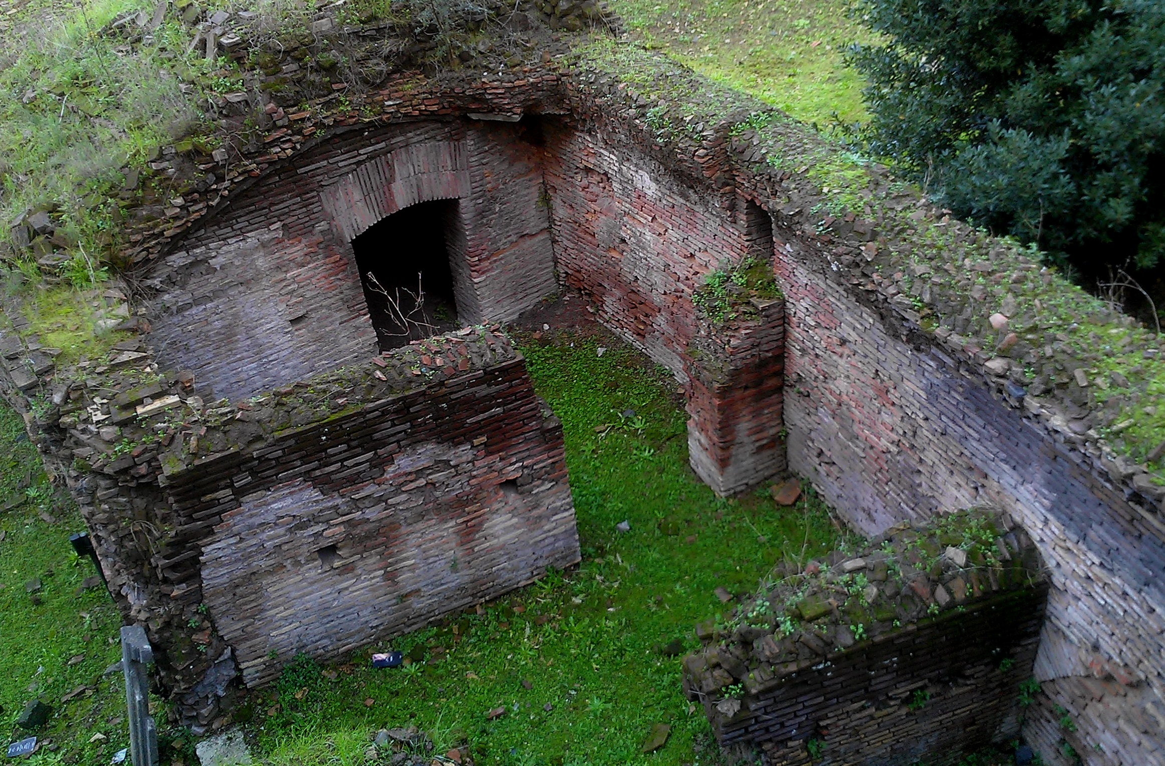 Detail on the south-eastern corner of the Ludus Magnus in Rome.